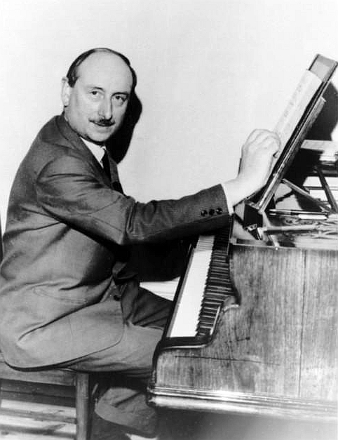 French organist and composer Denis Joly (1906-1979) at the piano at the Conservatoire de Saint-Étienne.